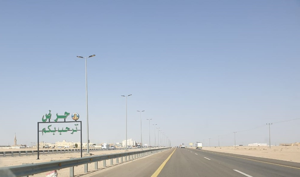 Entrance of Haradh